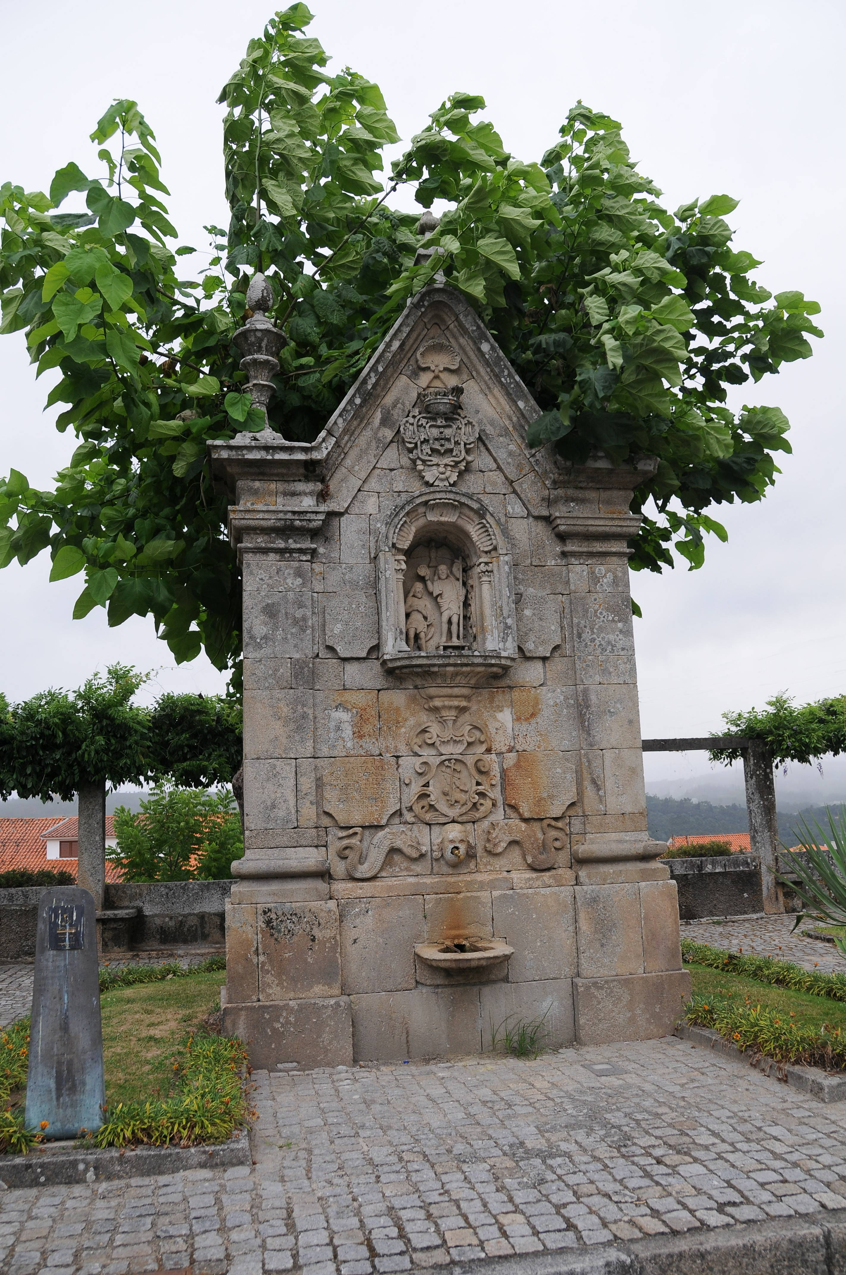 St John fountain in Praça da República, Melgaço, Portugal